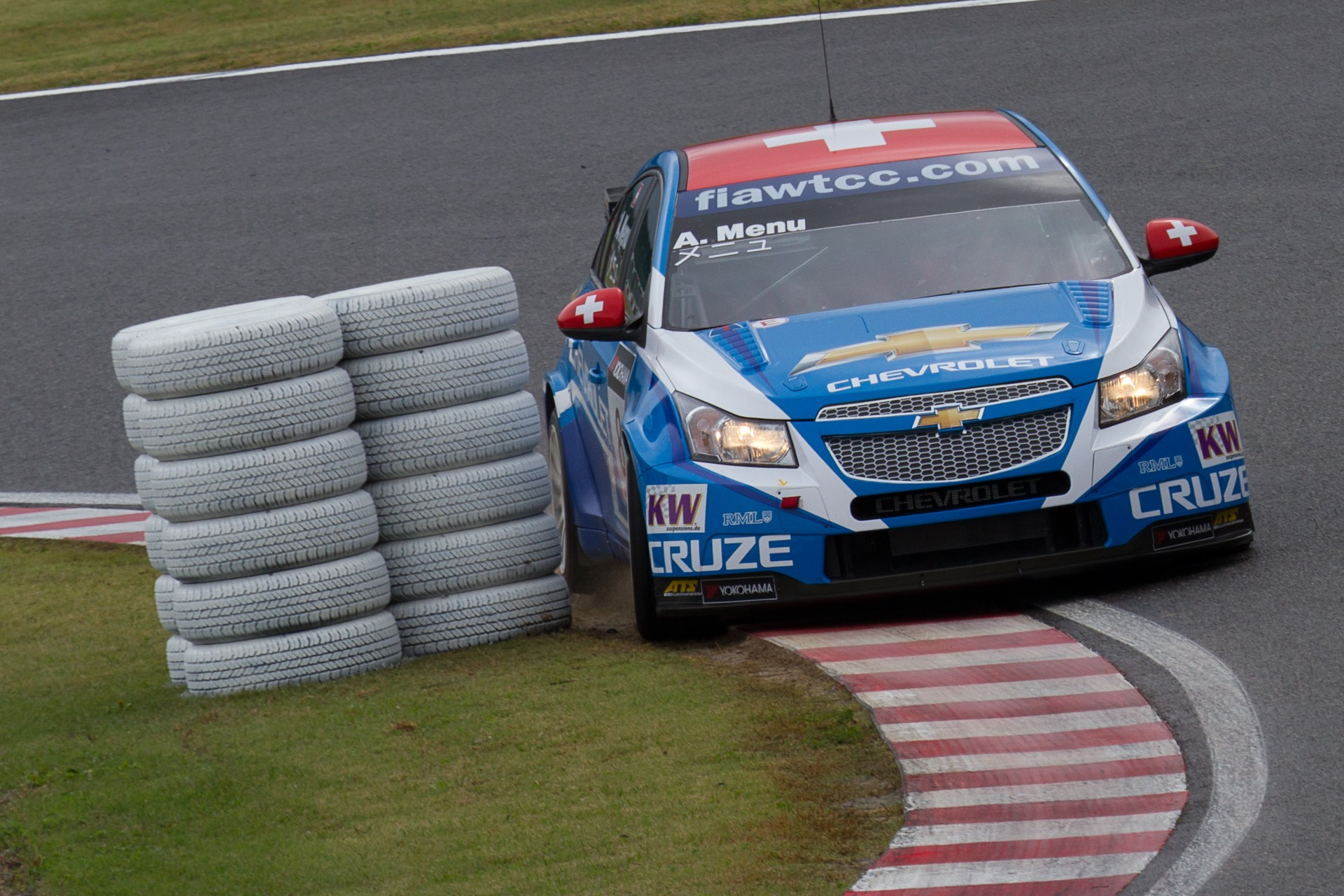 World Touring Car Championship 2011 Race of Japan: Alain Menu (Chevrolet) during the 1st practice session on Saturday.